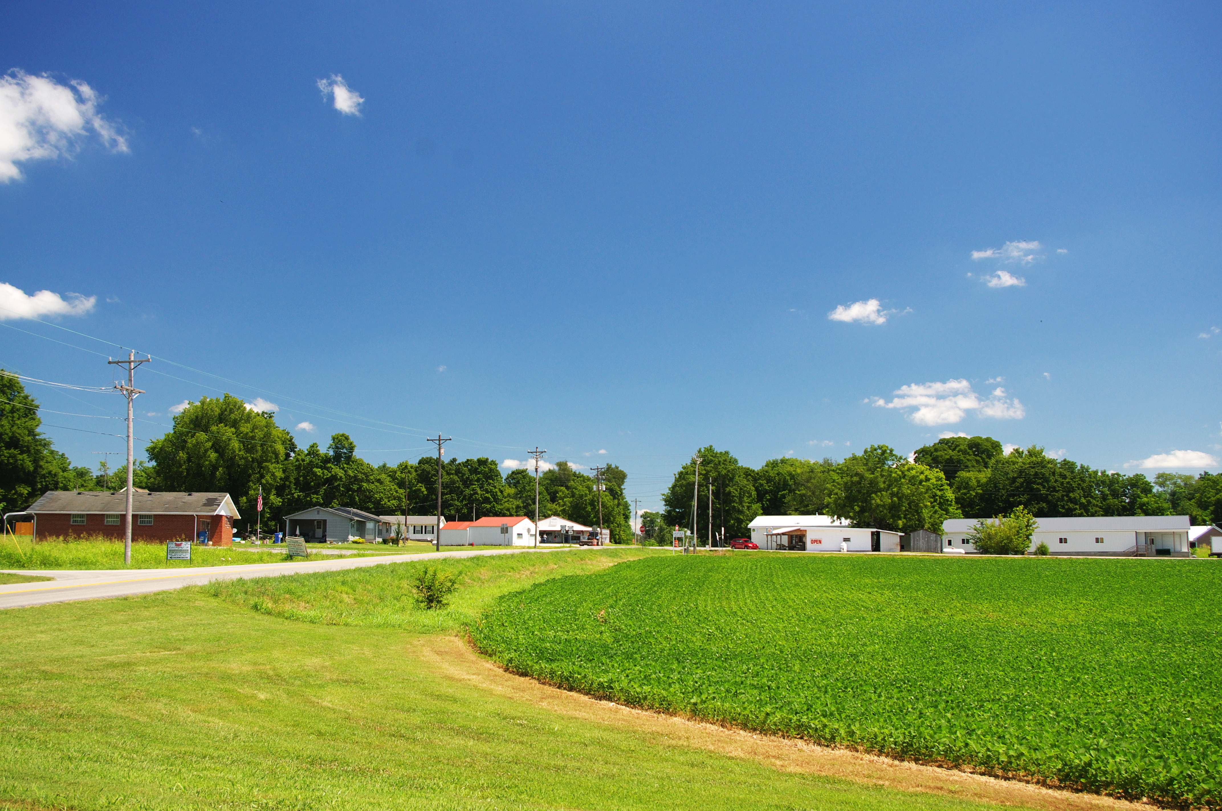 Buildings at the intersection of KY 107 and KY 117 in Herndon, Kentucky, United States.